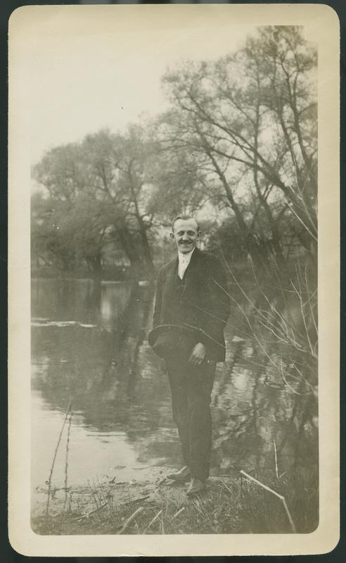 William Cartheuser (ca. 1927-1935) smiling at the camera while standing at the edge of a body of water dressed in a suit and holding a hat.